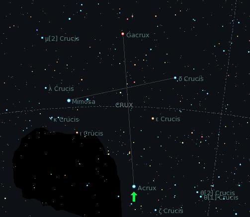 Diagram showing Acrux within Southern Cross constellation